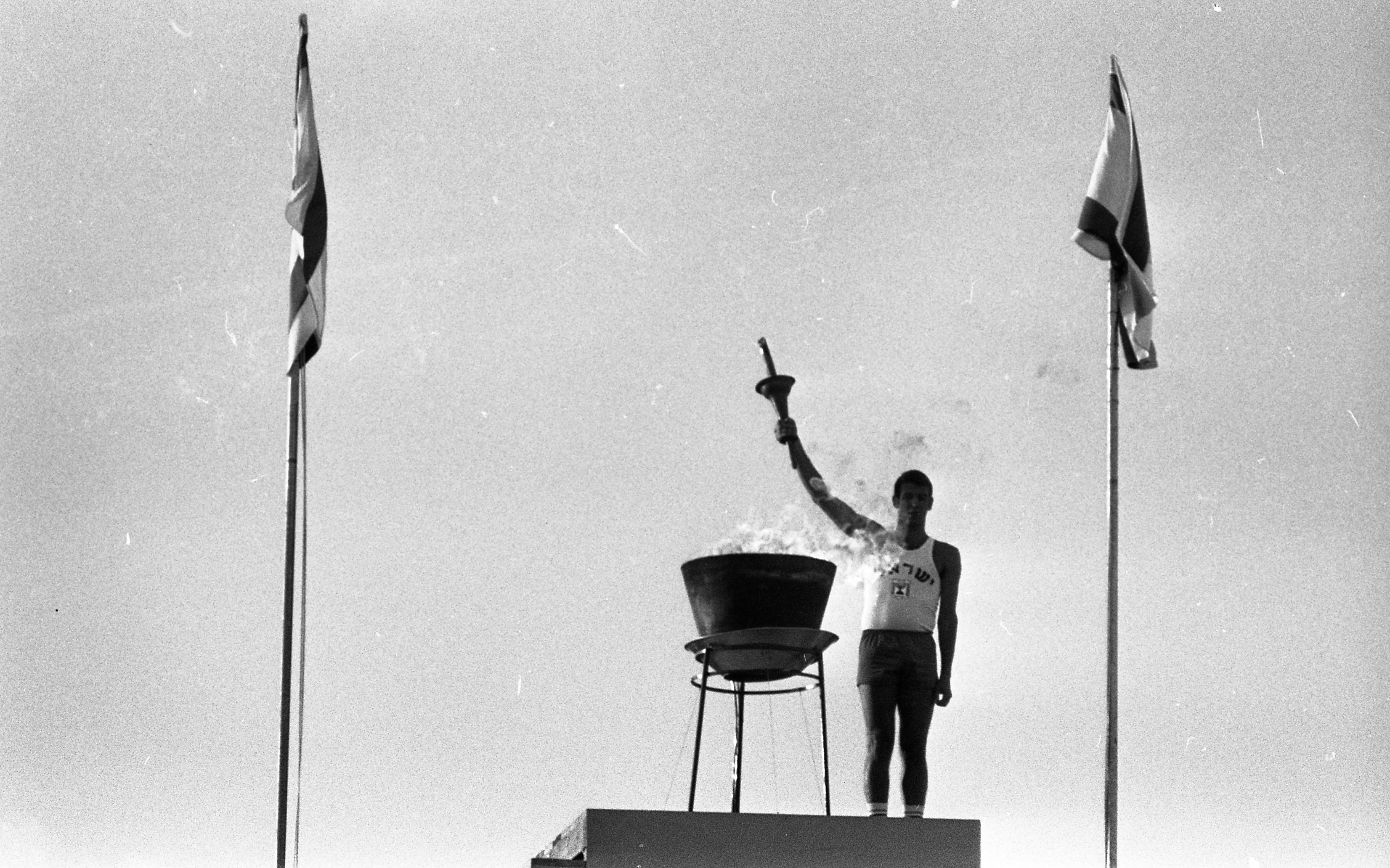 8th Maccabiah Games - 1969.